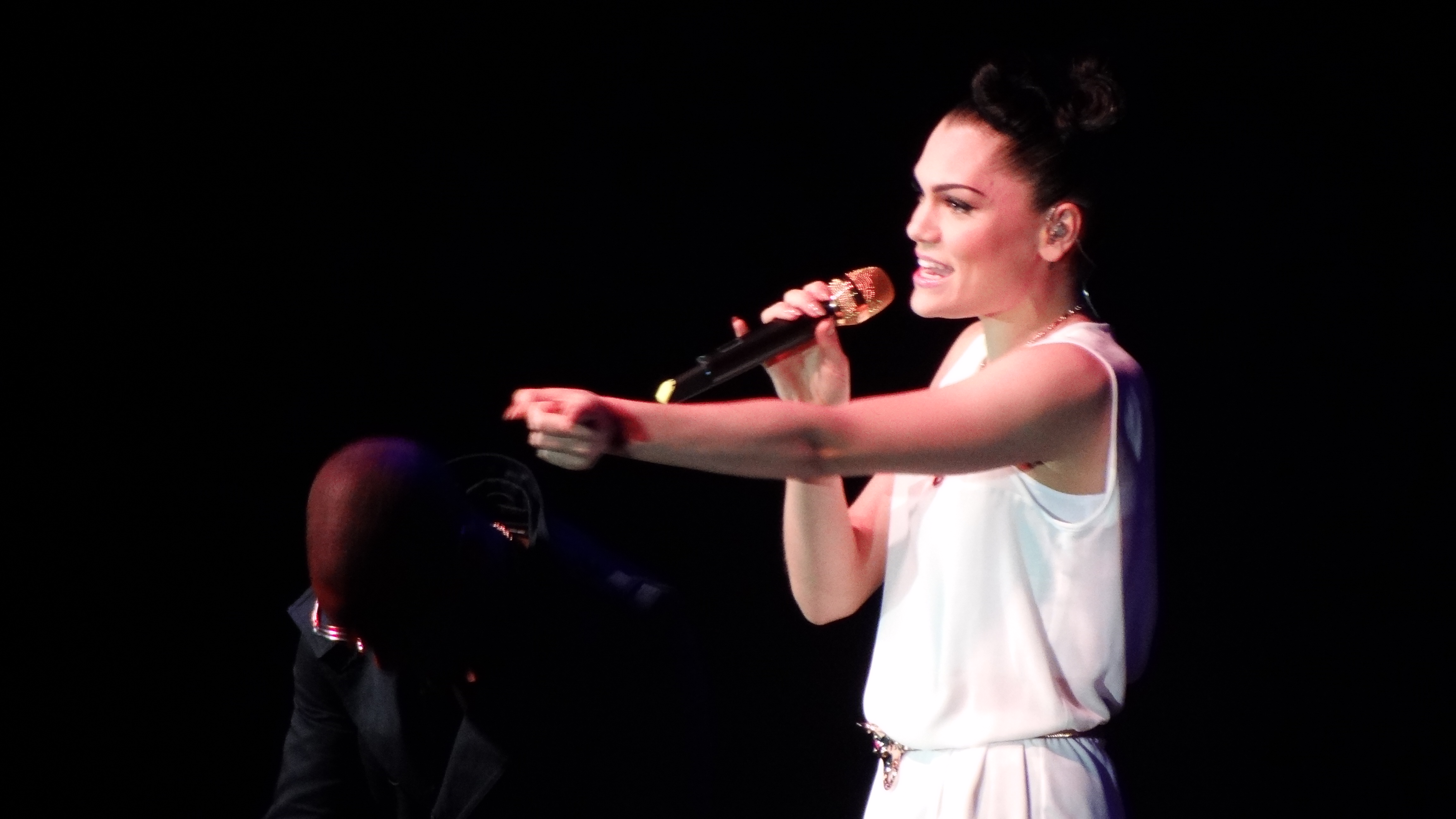 Jessie J reaches out to her audience at the 2012 Sony Radio Academy Awards